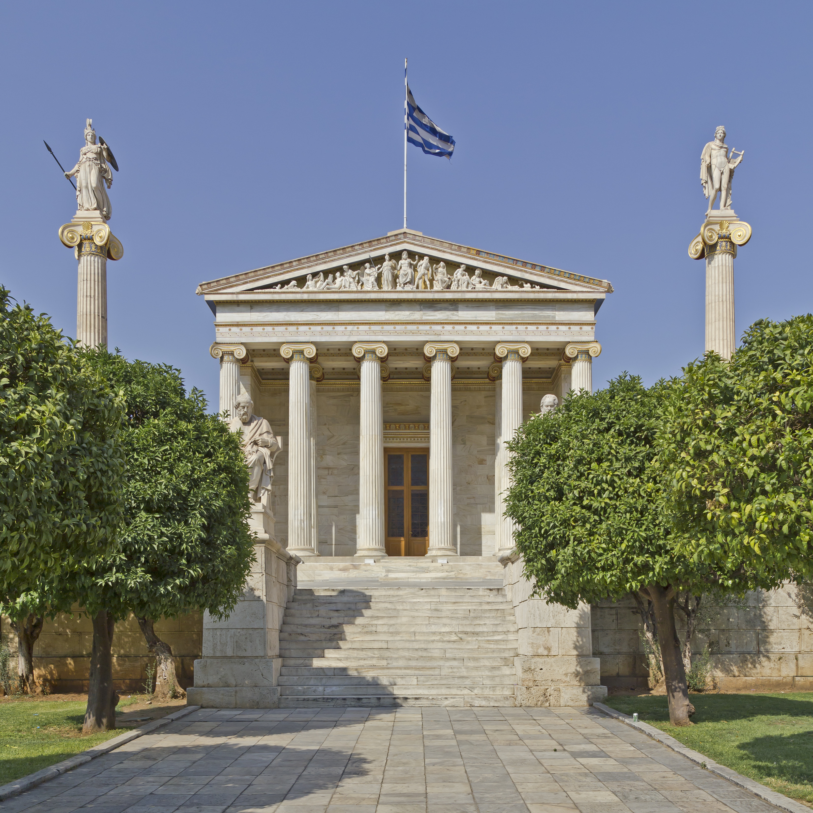 Building of the Academy of Athens (Attica, Greece)